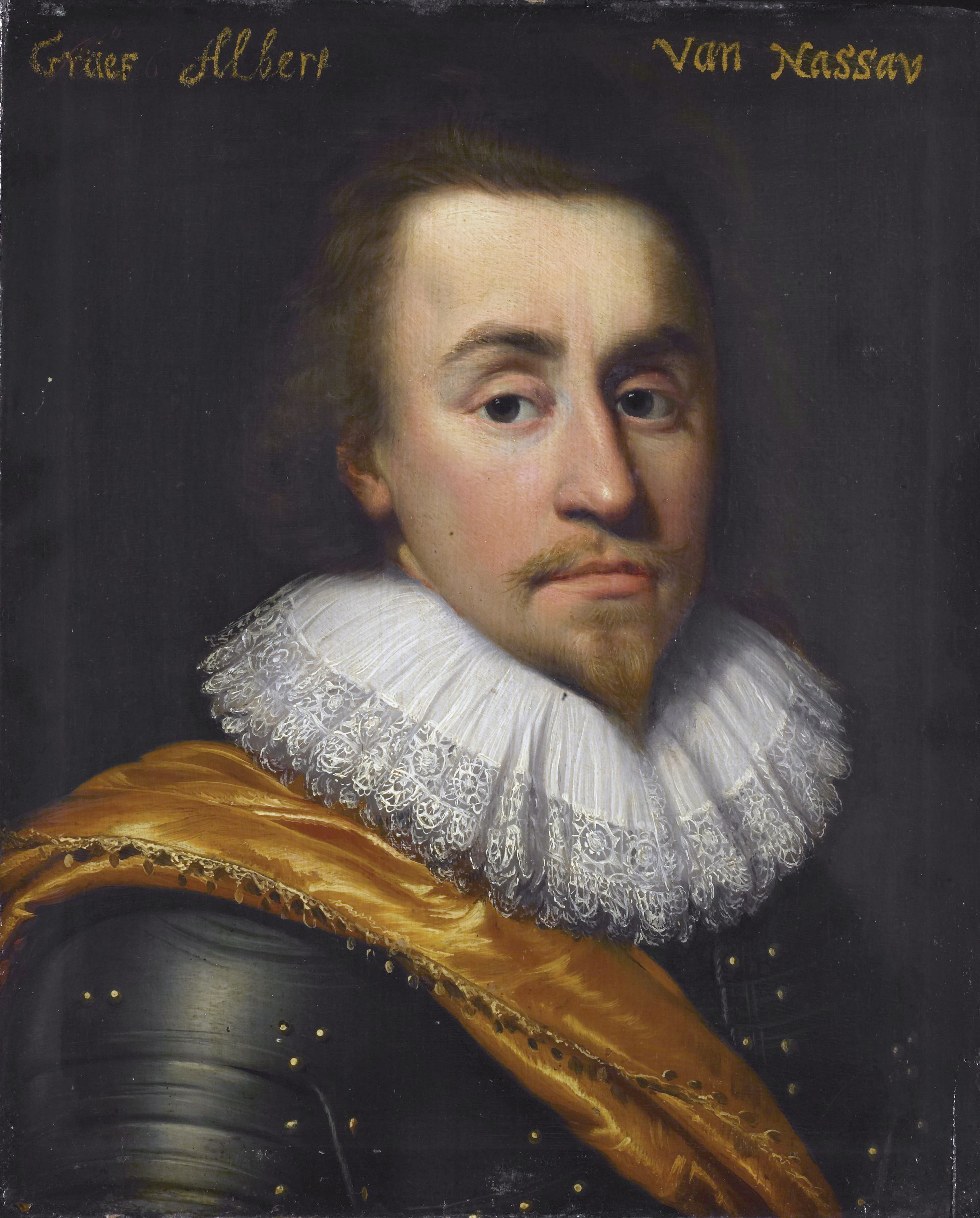 Portrait of Albert (1596–1626), count of Nassau-Dillenburg. Part of the Leeuwarden series, a series of portraits of military officials from the Eighty Years' War as well as members of the House of Orange-Nassau, first documented in 1633 in the Stadhouderlijk Hof (Stadholder's Court) in Leeuwarden (see Object history).